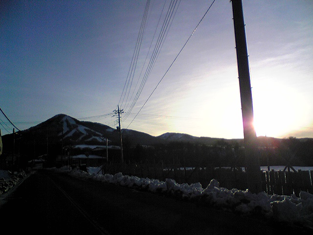 kazawa